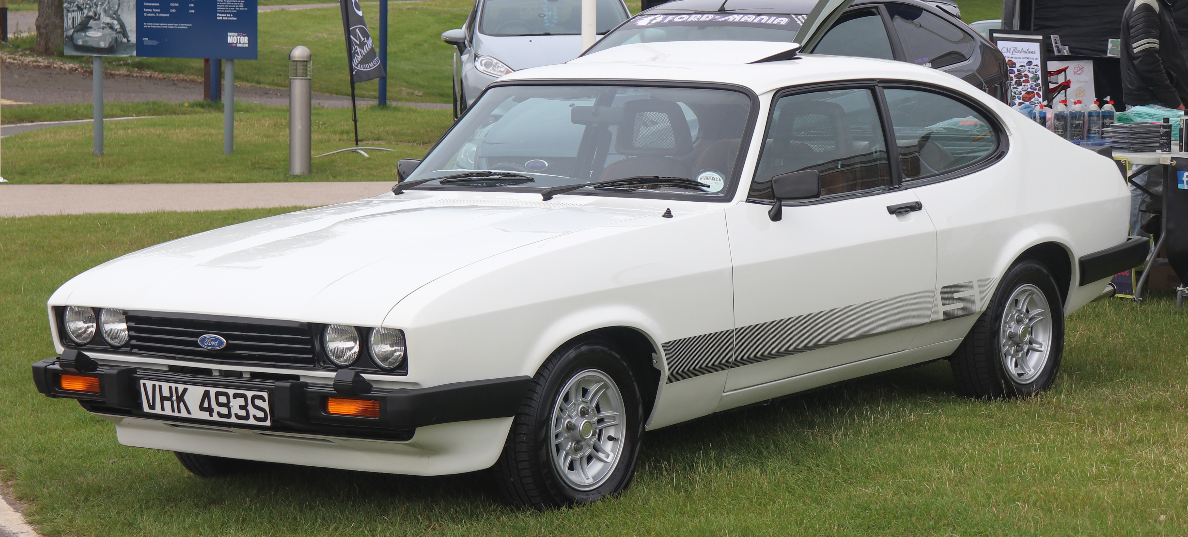 1978 Ford Capri II S 3.0 Taken at the Ford Nationals 2019, British Motor Museum, Gaydon